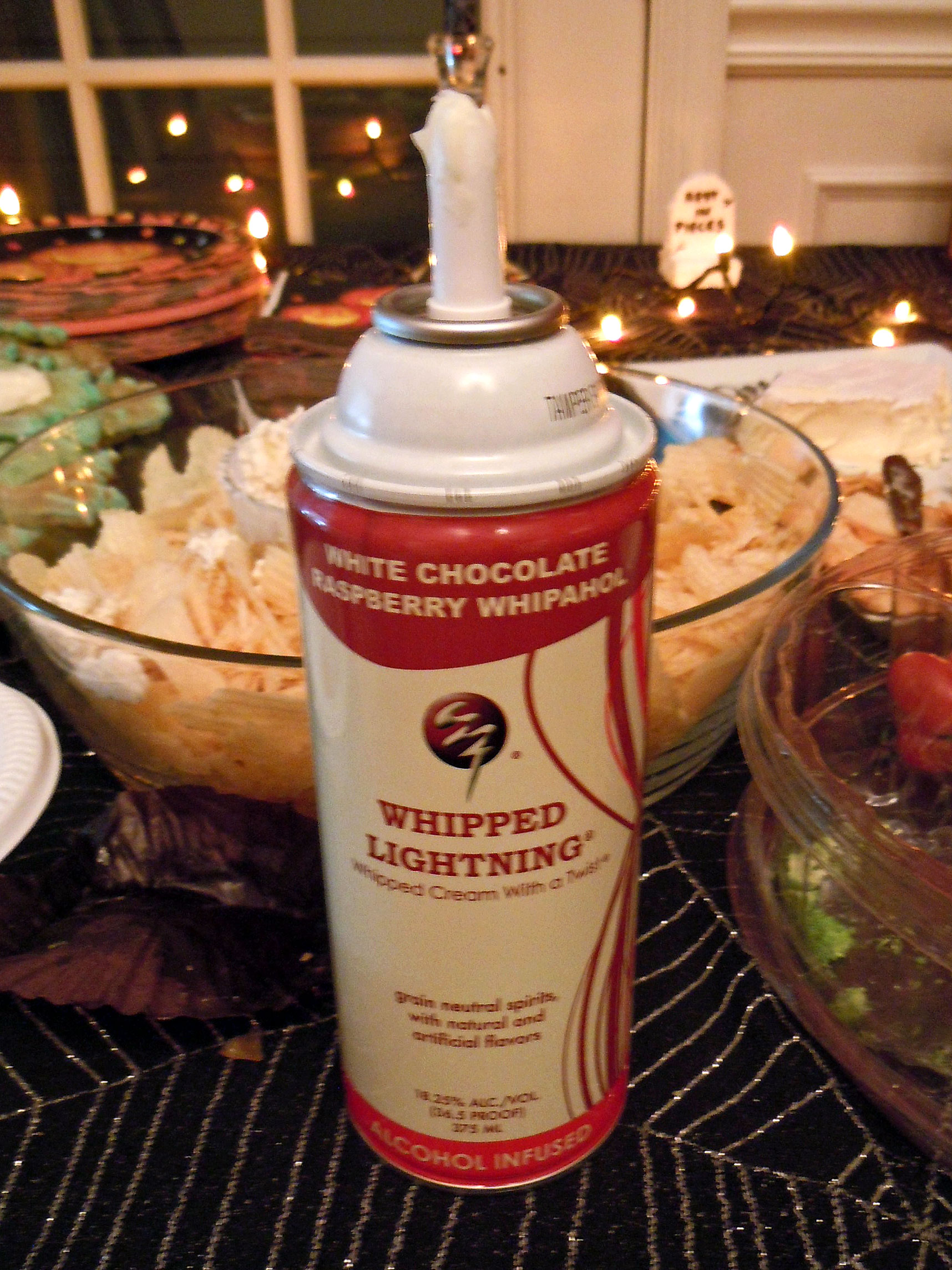 Photo of the raspberry white chocolate flavor of Whipped Lightning, a commercial brand of alcohol-infused whipped cream.